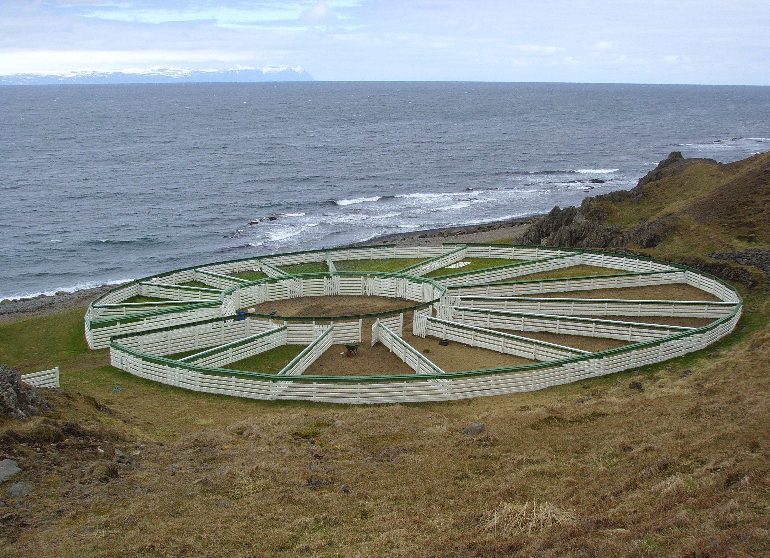 sheepcote at Húnaþing vestra, Iceland